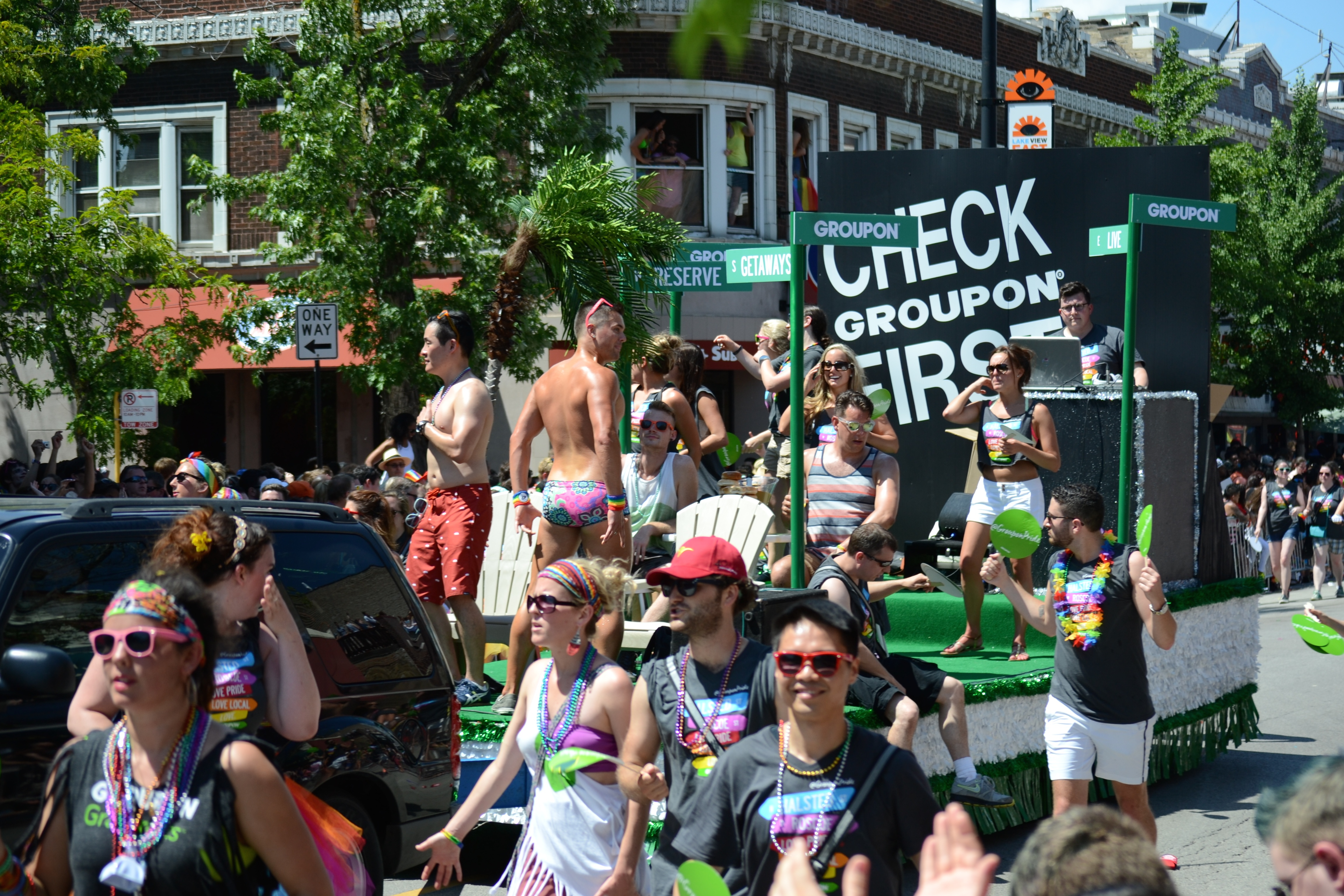 Groupon Float